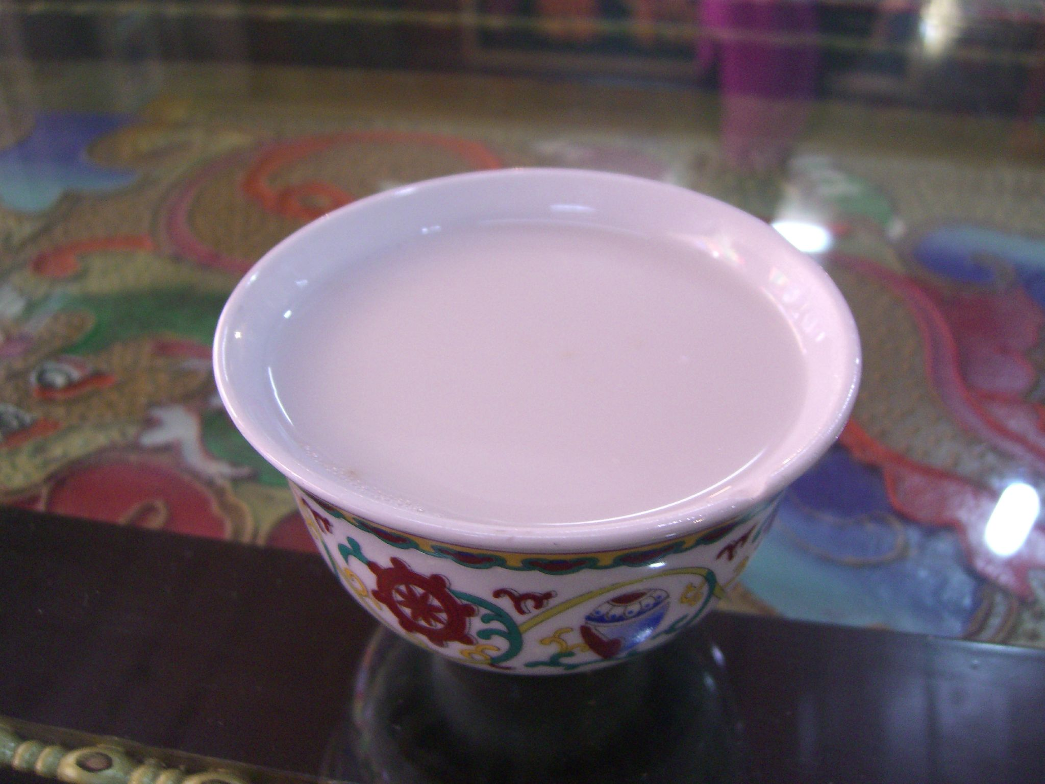 Tibetan butter tea. Tastes like a warm yoghurt drink, but with a gamey butteriness that wasn't totally unpleasant.